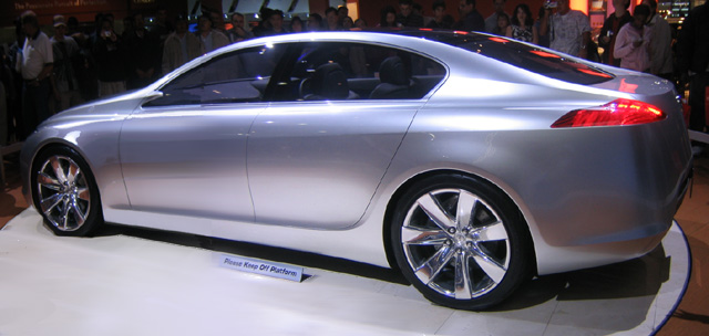 Image taken at 2005 LA Auto Show.